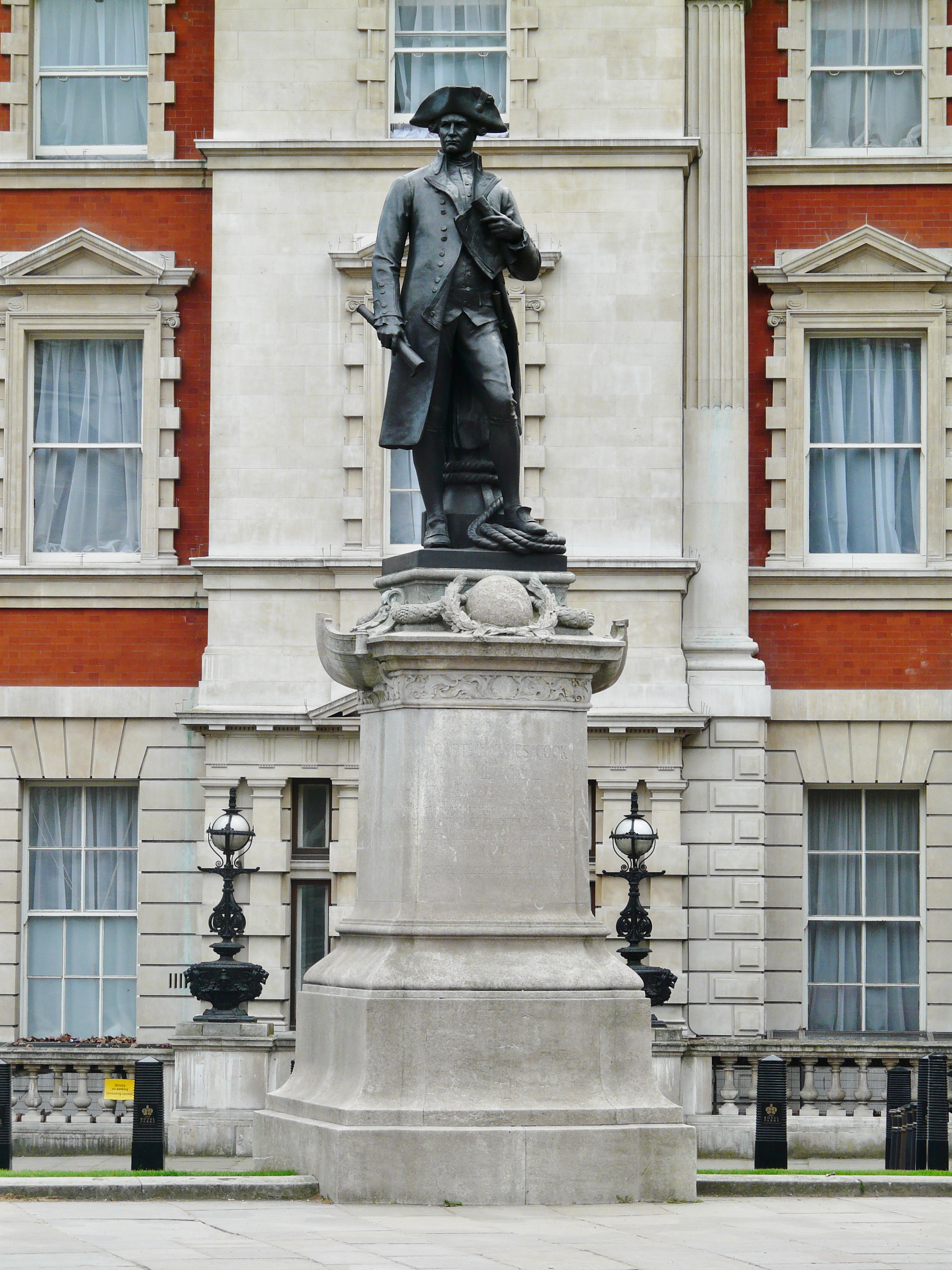 Statue of Captain James Cook (Sir Thomas Brock, 1914). The Mall, London SW1. The making of this file was supported by Wikimedia UK.